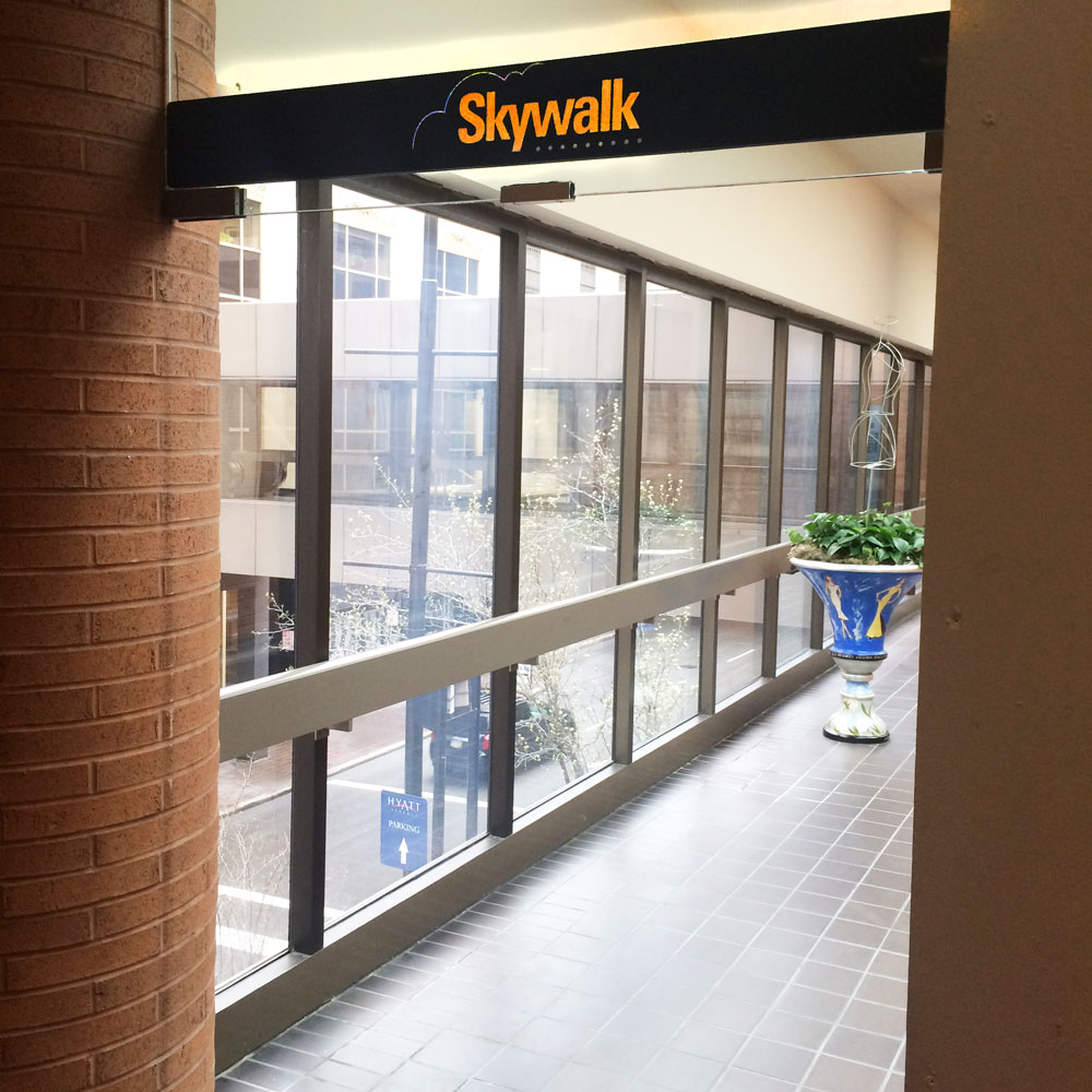 This section of the Cincinnati Skywalk is adjacent to Saks Fifth Avenue, while the bridge in the background crosses Race Street near 5th Street.